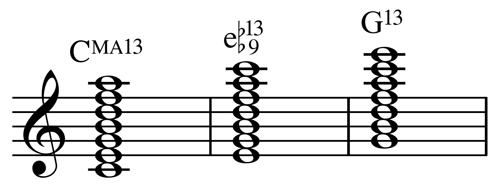 CM13, first inversion equals e13(b9), 2nd inversion equals G13... Eventually seven chords along a ladder of thirds. Created by Hyacinth (talk) 14:13, 31 March 2010 using Sibelius 5.